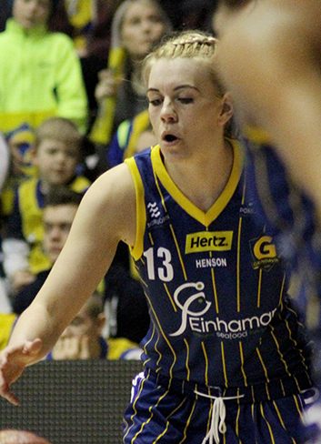 Ingibjörg Jakobsdóttir during the 2015 Icelandic Women's Basketball Cup finals